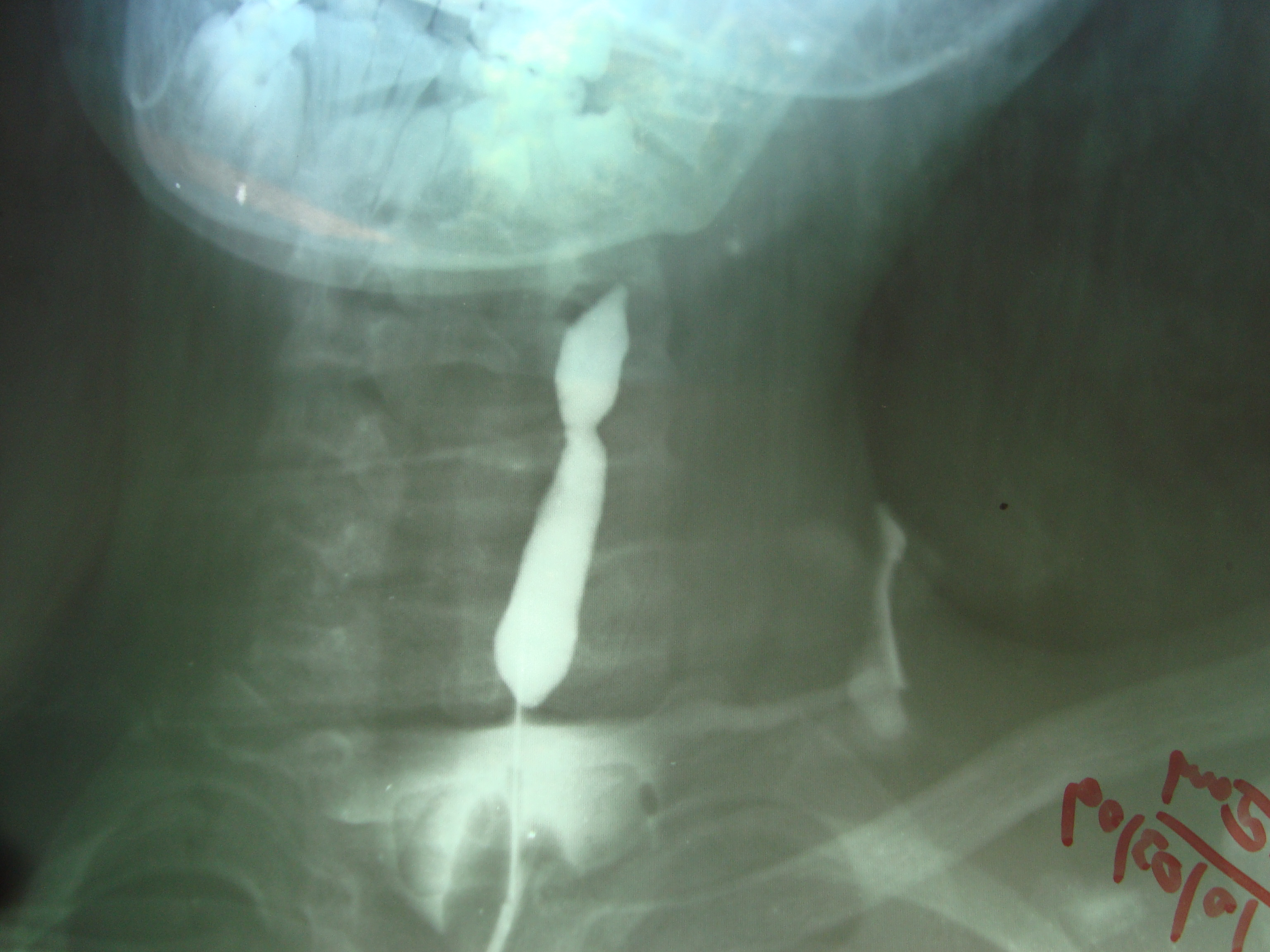 fistulogram of the case of brachial fistula showing the tract leading upto tonsiller area